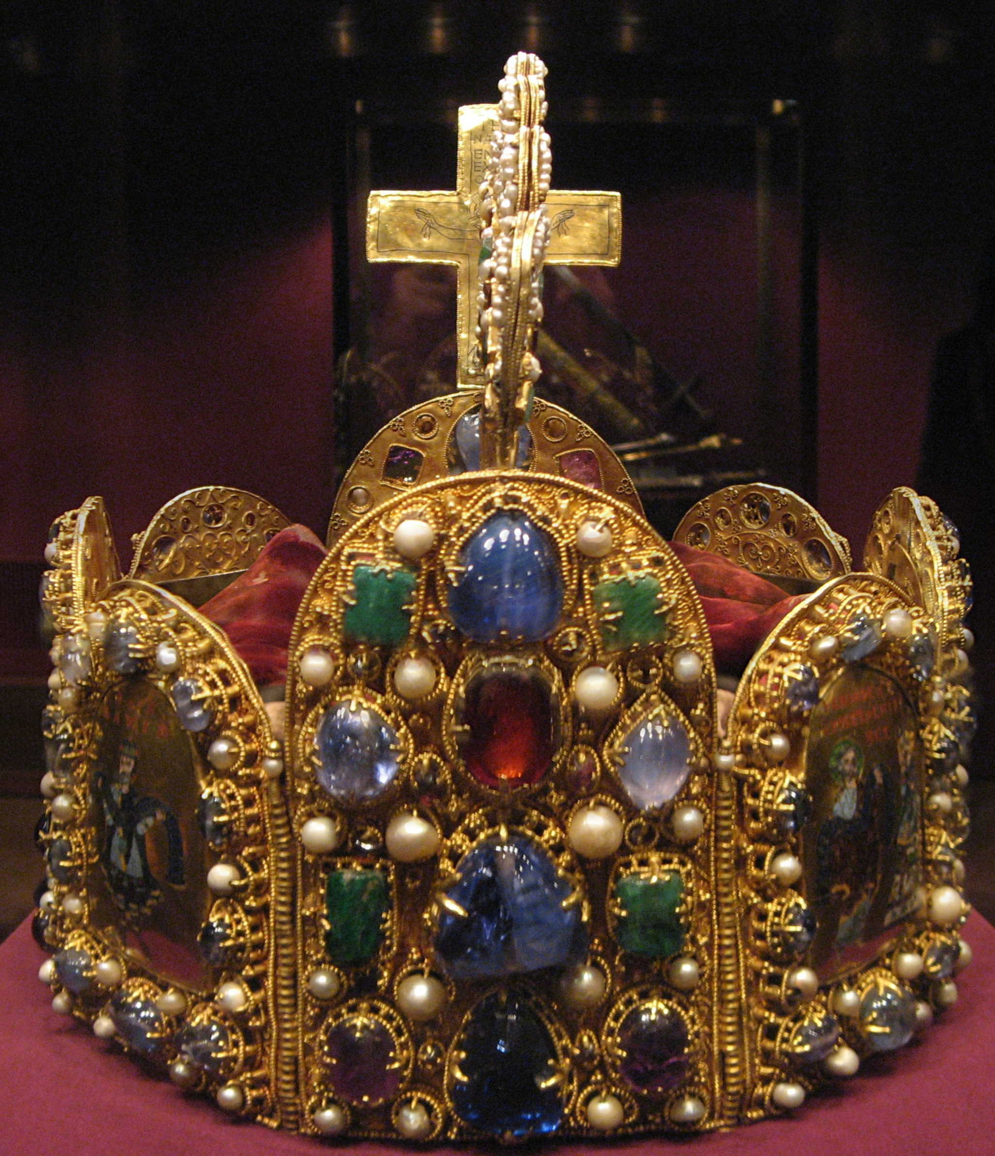 The Imperial Crown Western Germany 2nd half of the 10th century The cross is an addition from the early 11th century; the arch dates from the reign of Emperor Conrad II (ruled 1024-1039); the red velvet cap is from the 18th century. Gold, cloisonné enamel, precious stones, pearls Brow plate: H 14.9 cm, W 11.2 cm; cross: H 9.9 cm SK Inv. No. XIII 1